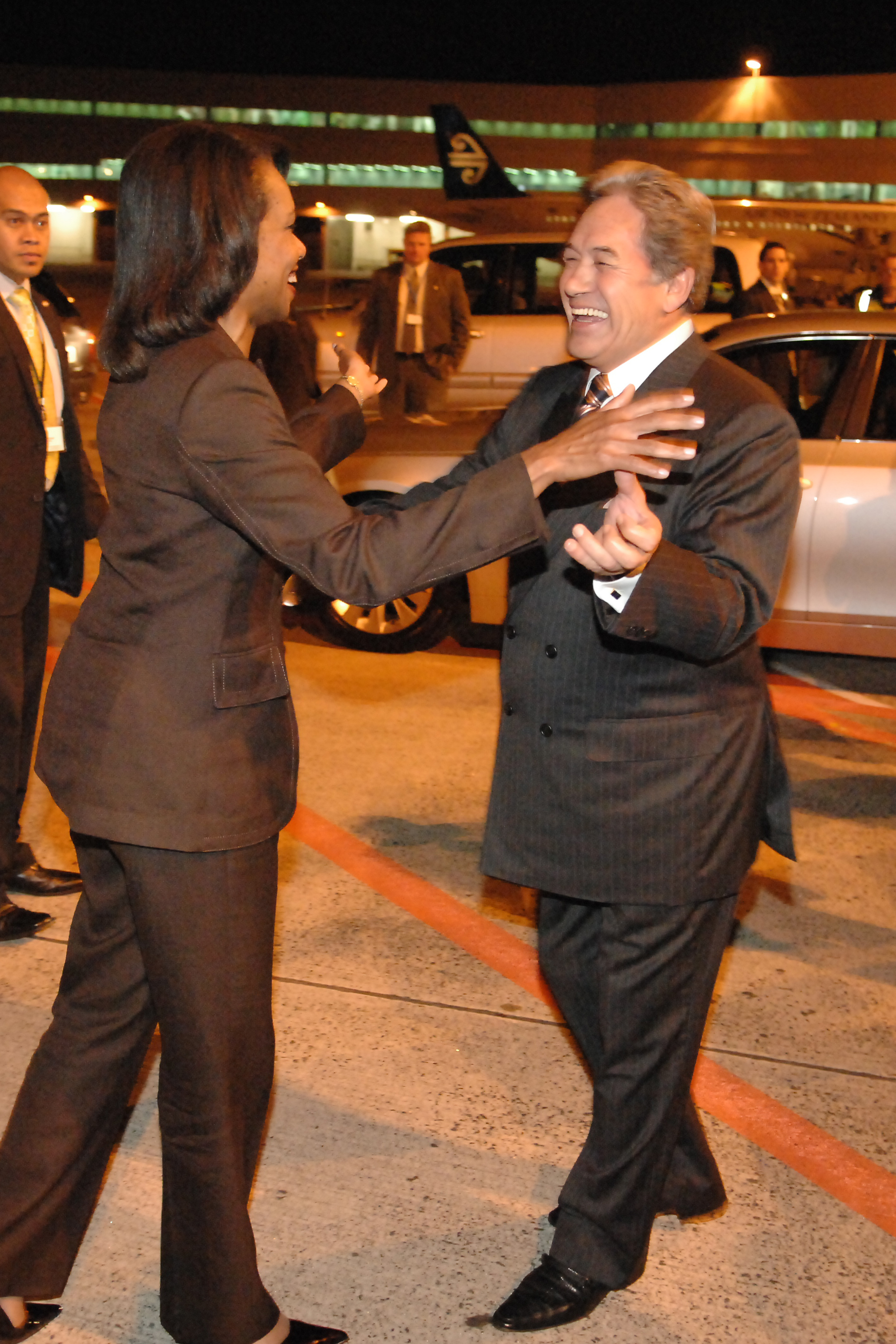 New Zealand Foreign Minister Winston Peters greets U.S. Secretary of State Condoleezza Rice on her arrival at Auckland in 2008.